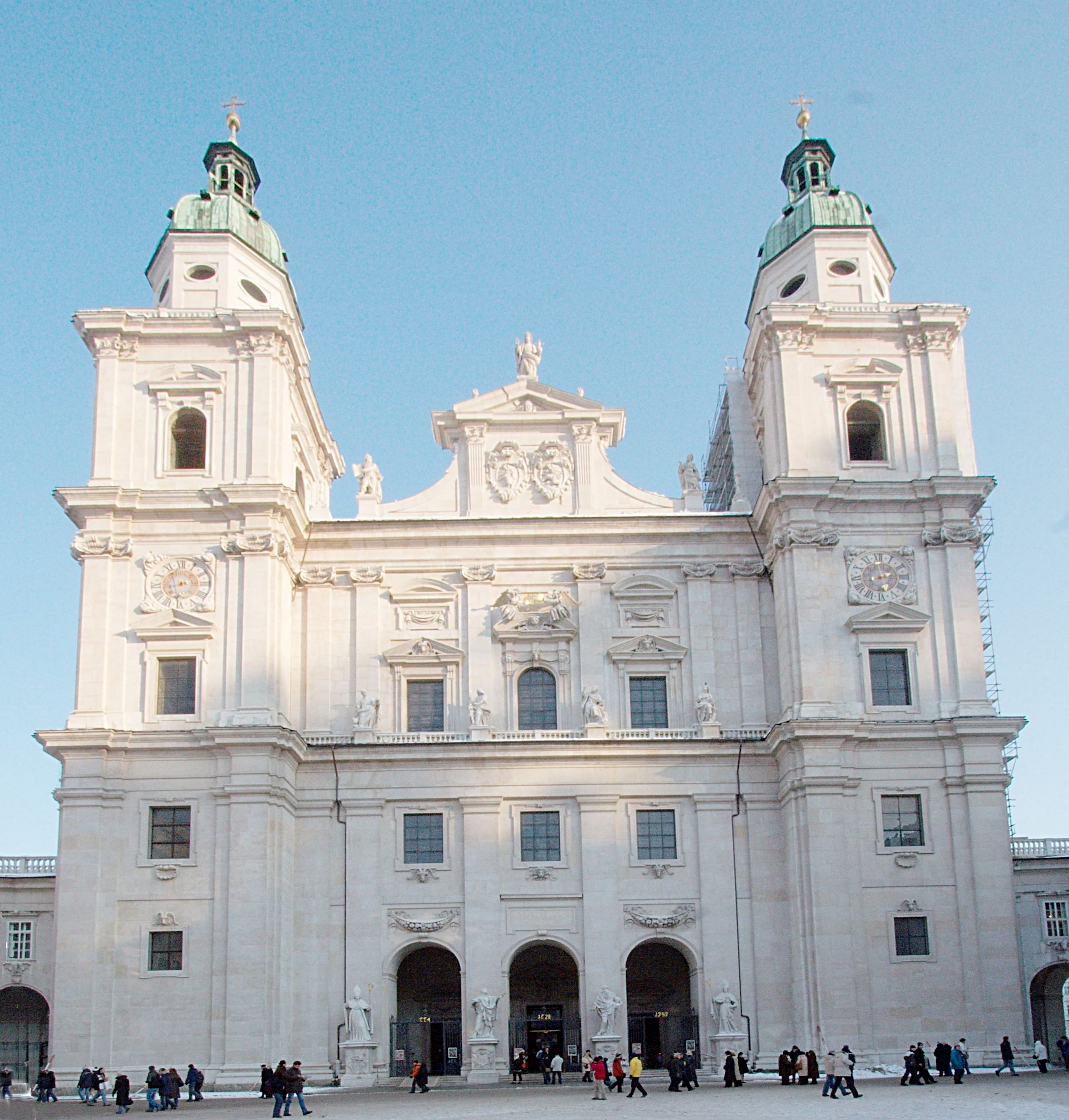 Frontview of the Cathedral in Salzburg